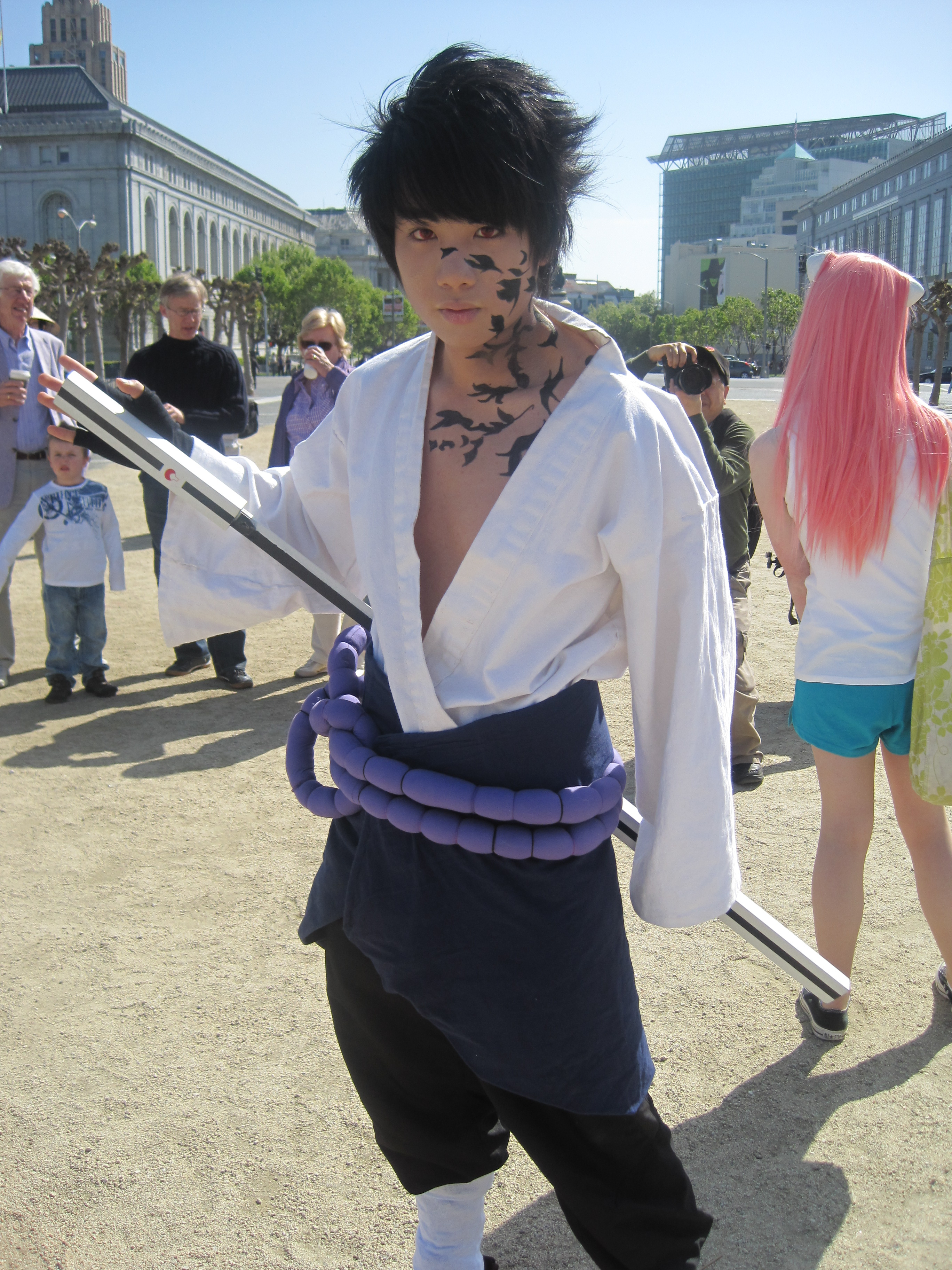 A cosplayer portraying Sasuke Uchiha as he appears in Naruto: Shippuden at the Northern California Cherry Blossom Festival in San Francisco, California.